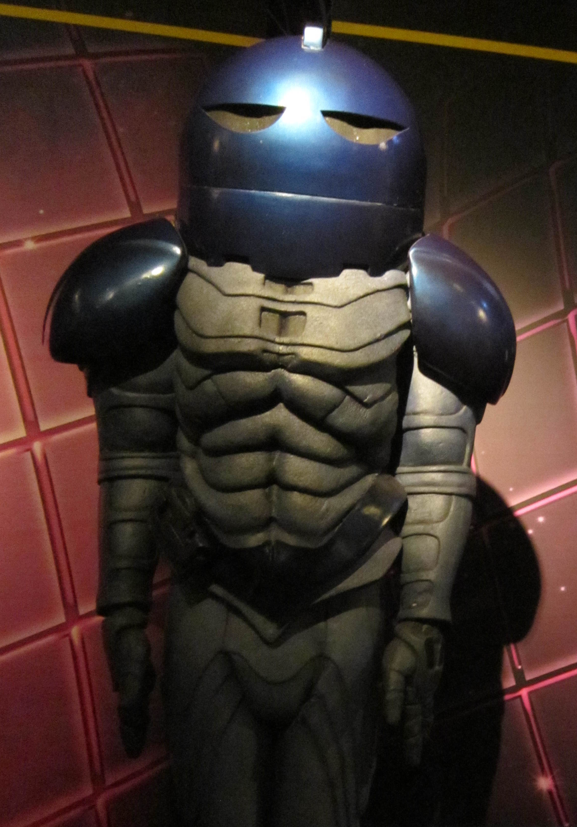 La Doctor Who Experience à Cardiff Doctor Who Experience